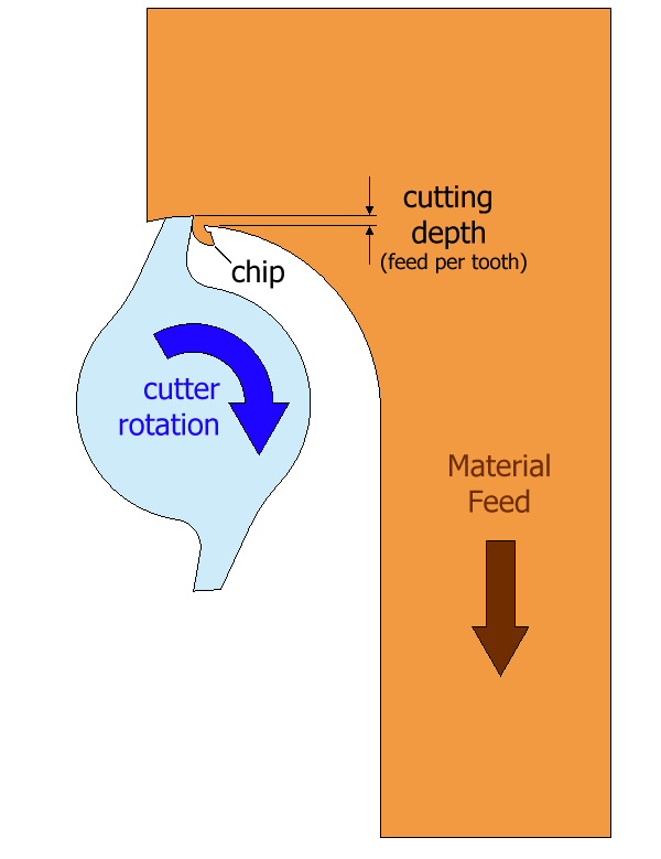 Diagram of climb milling, showing chip formation